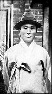 Lee Kwang-su, Korean writer